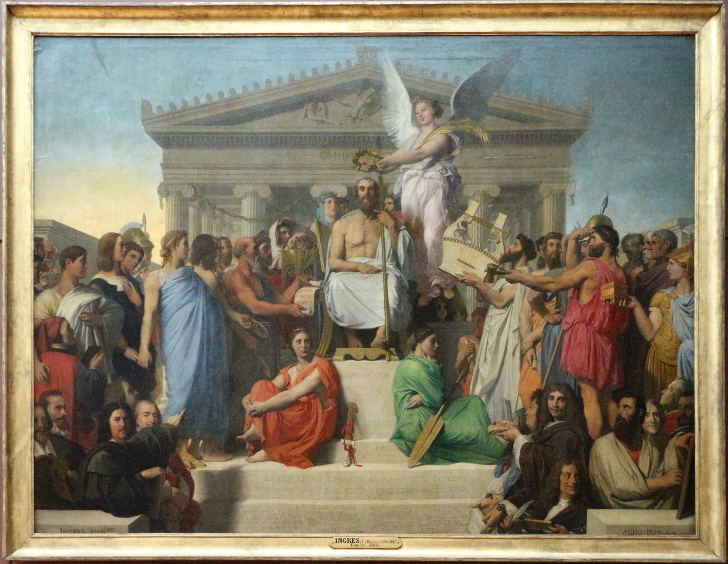 Paintings by Jean-Auguste-Dominique Ingres in the Louvre